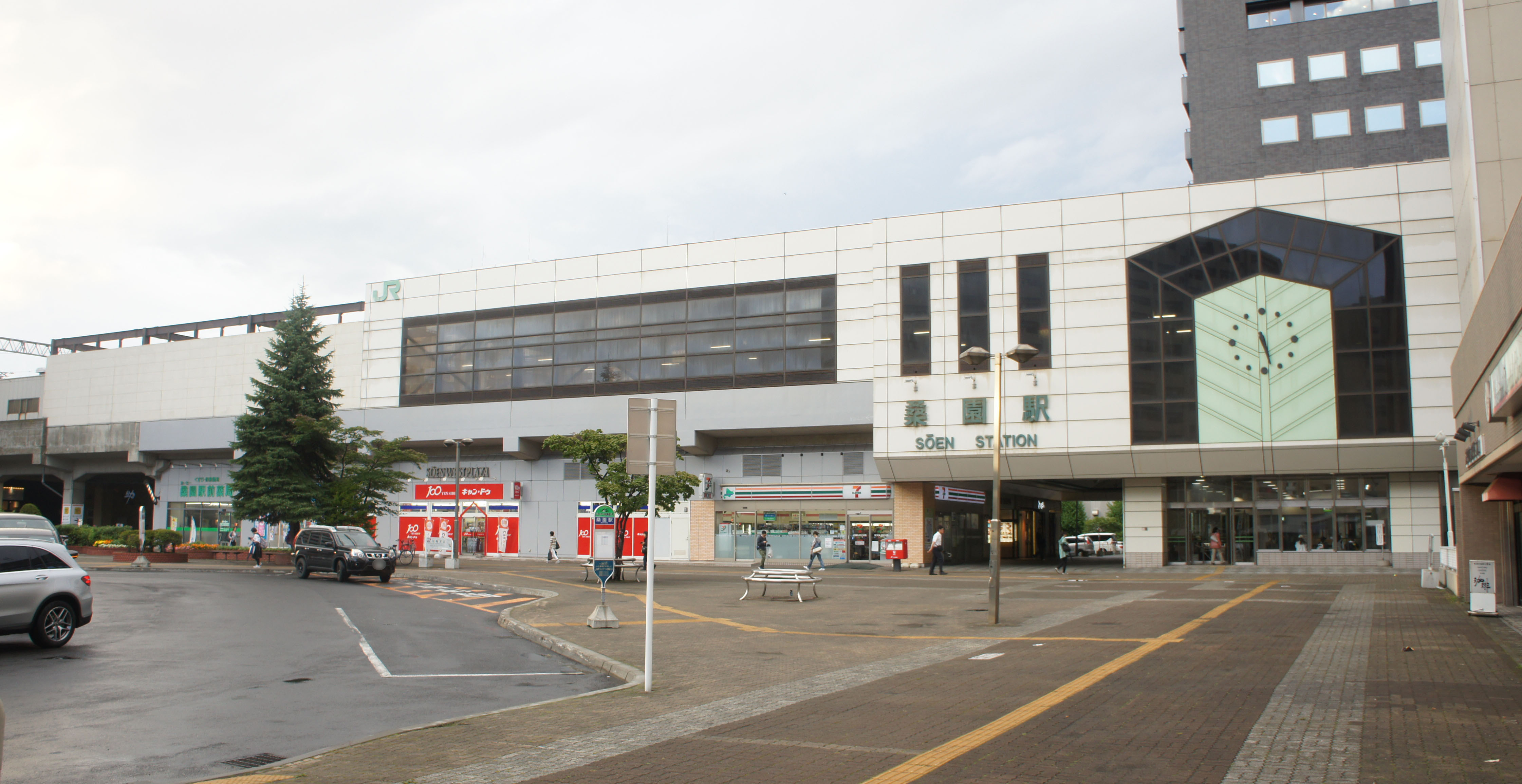 Station building of JR Hakodate-Main-Line/Sassho-Line Soen Station